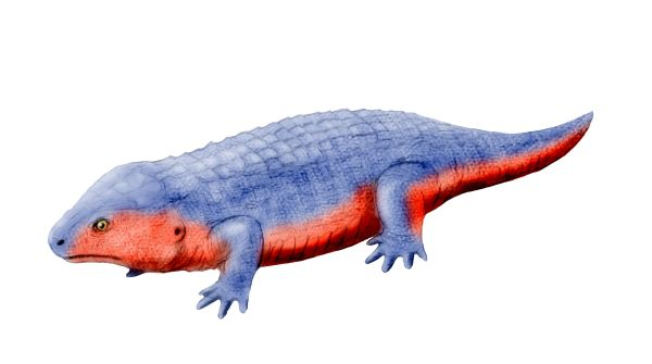 Fedexia